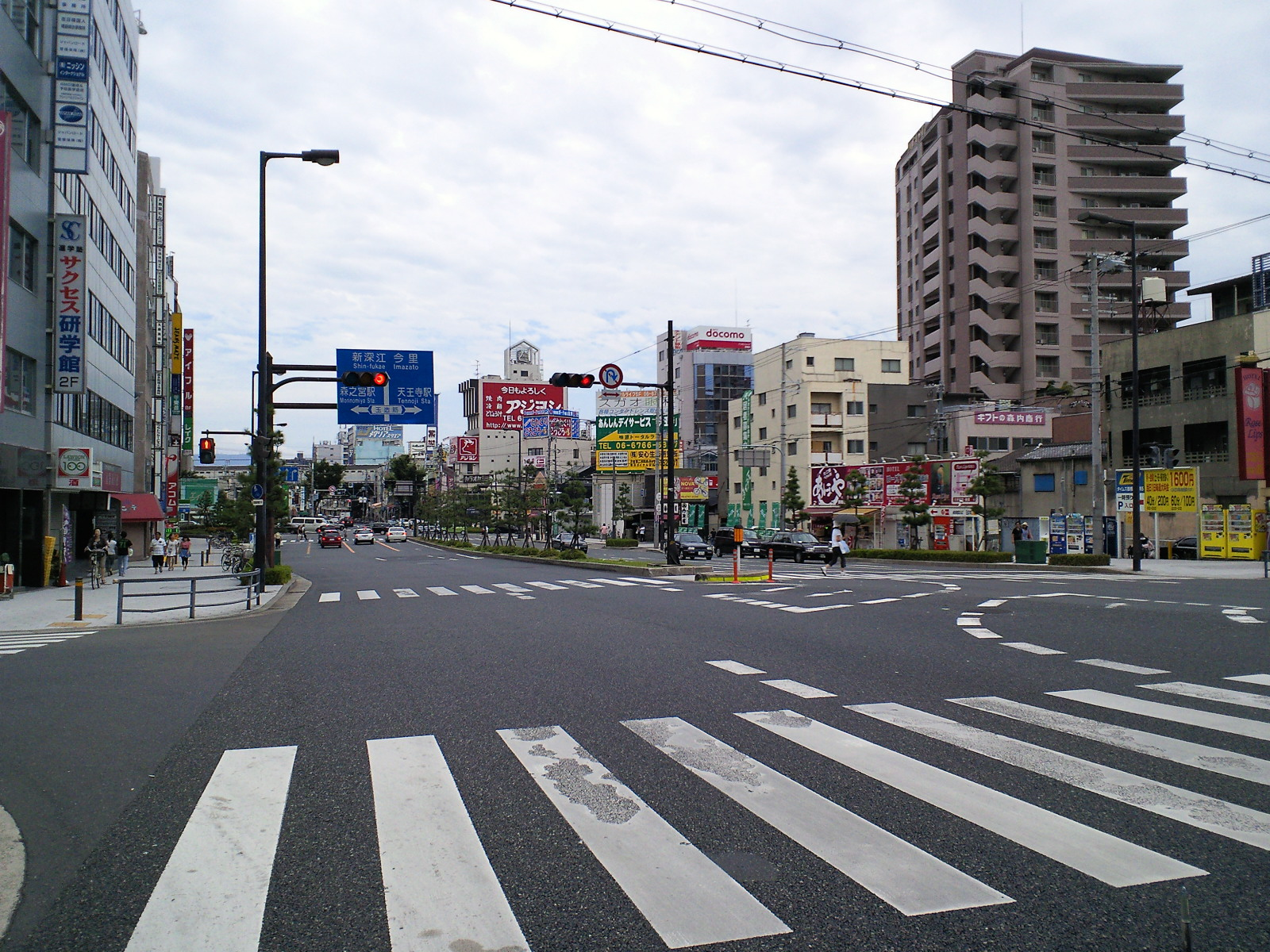 Sennichimae-Dori (Street), Tennoji, Osaka